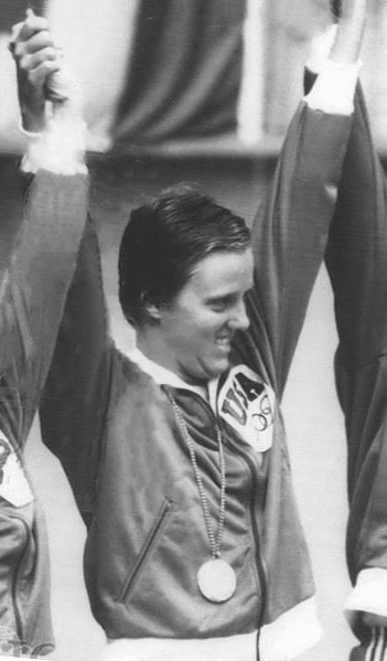 1976 Press Photo Olympic girls swimming team display their medals in Montreal